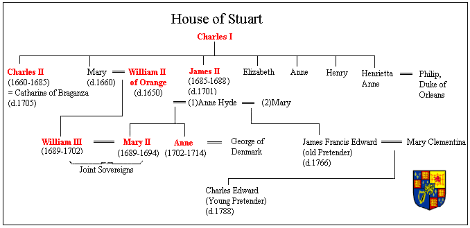 This is an original piece created by myself.